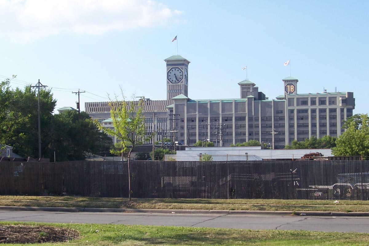 Copyright © 2005 Sulfur The landmark Allen-Bradley complex. The original clock, now displays the temperature (right) while the higher tower was added to serve as the new clock(left). Category:Images of Milwaukee, Wisconsin